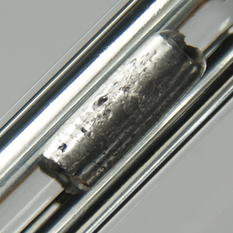 Thallium is a metal which is very similar to lead, but is much more toxic and rare than this. Therefore it is used scarcely and only in amounts as small as possible. One application is for special glass. In nature, its toxicity normally is irrelevant, because it naturally only occurs in very low concentrations. But when it is deployed intensively, like it is done where thallium sulfate is used as a rat poison, it causes big environmental damage.